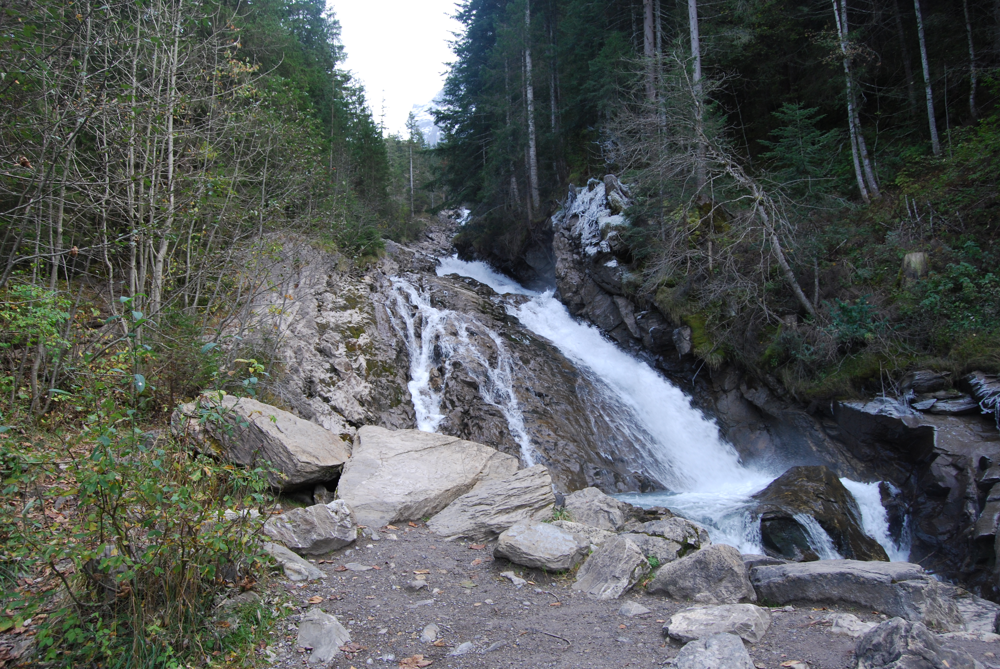 River Simme at Lenk, canton of Bern, SwitzerlandEsperanto: Rivero Simme en Lenk, Kantono Berno, Svislando